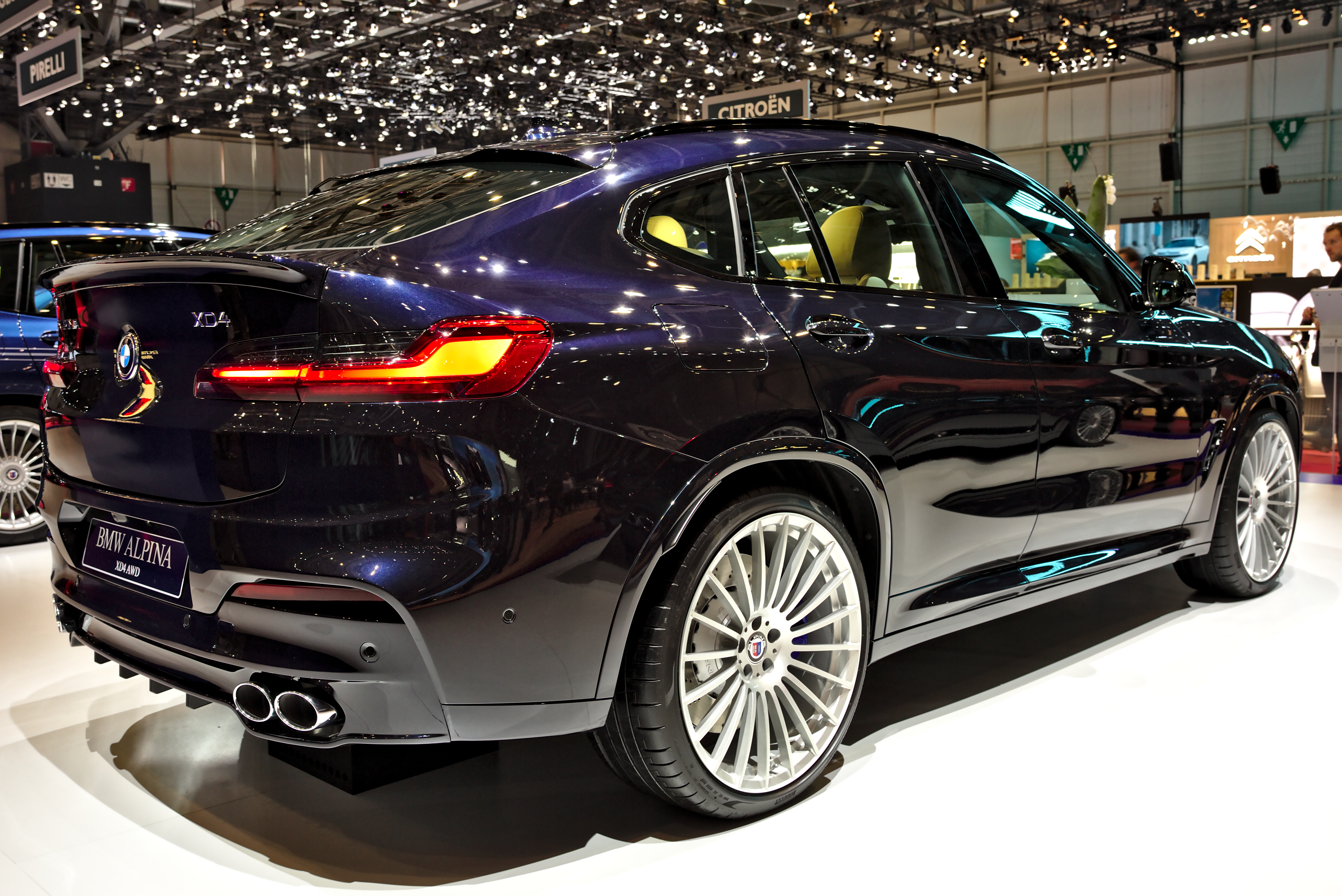 Alpina XD4 at Geneva Motorshow 2018